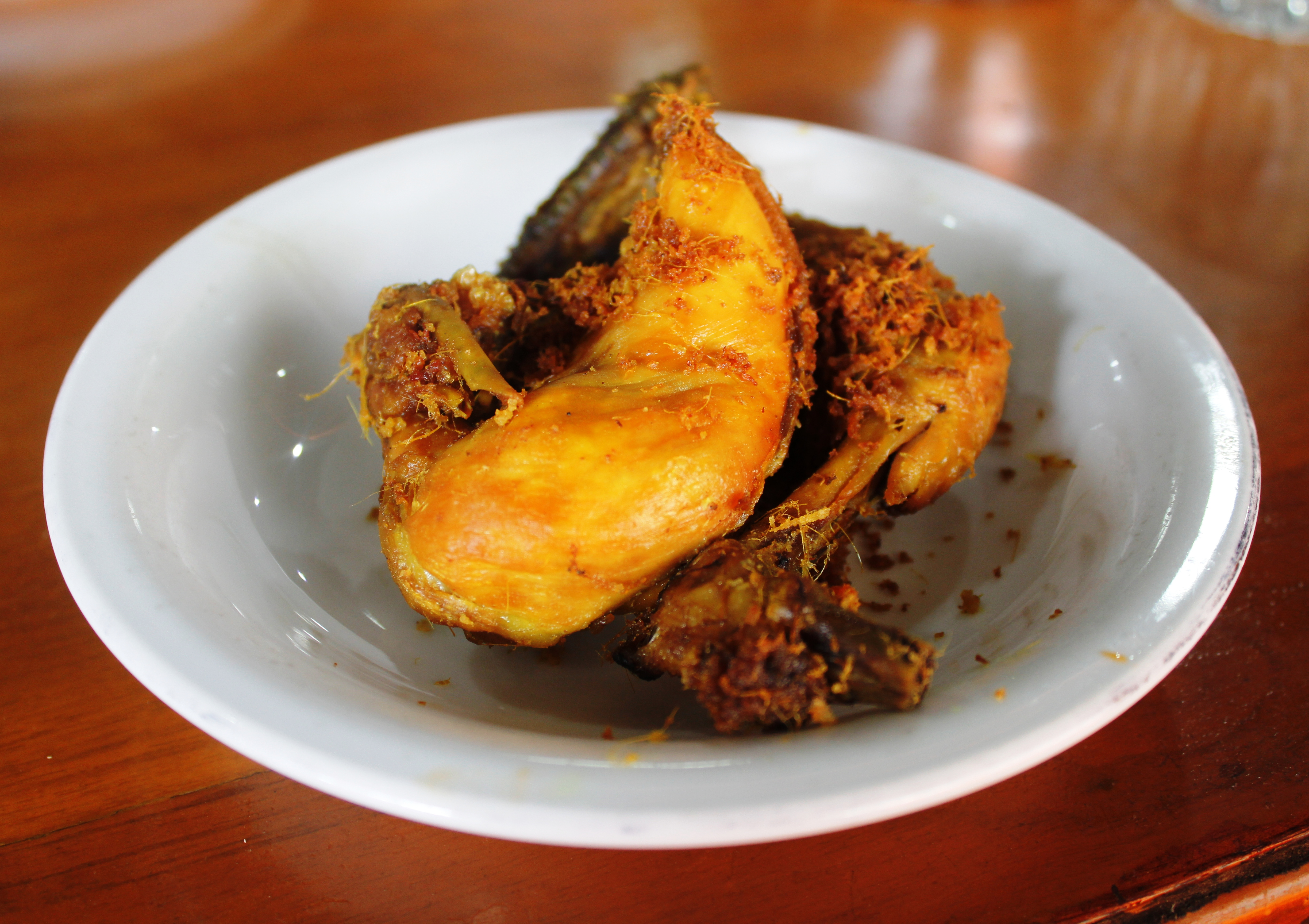 Ayam bumbu, a type of traditional Minangkabau cuisine. Presented in Aie Badarun, a restaurant in Panyalaian, Sapuluah Koto, Tanah Datar.